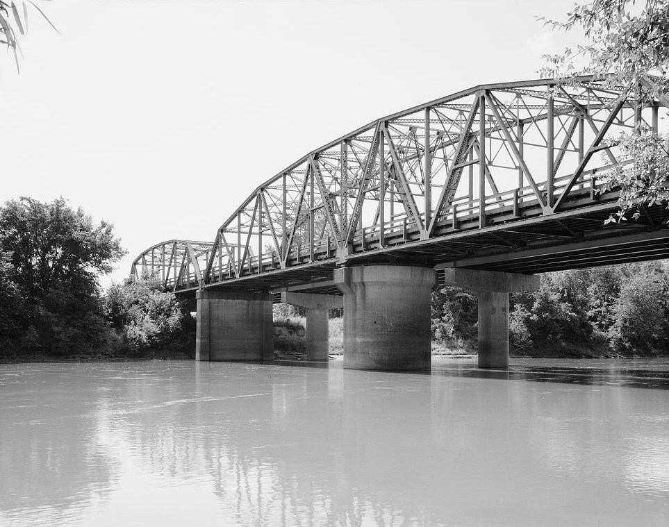 Black River Bridge, Spanning Black River at U.S. Highway 67, Pocahontas (Randolph County, Arkansas) cropped. HAER ARK,61-POCA,1-3.